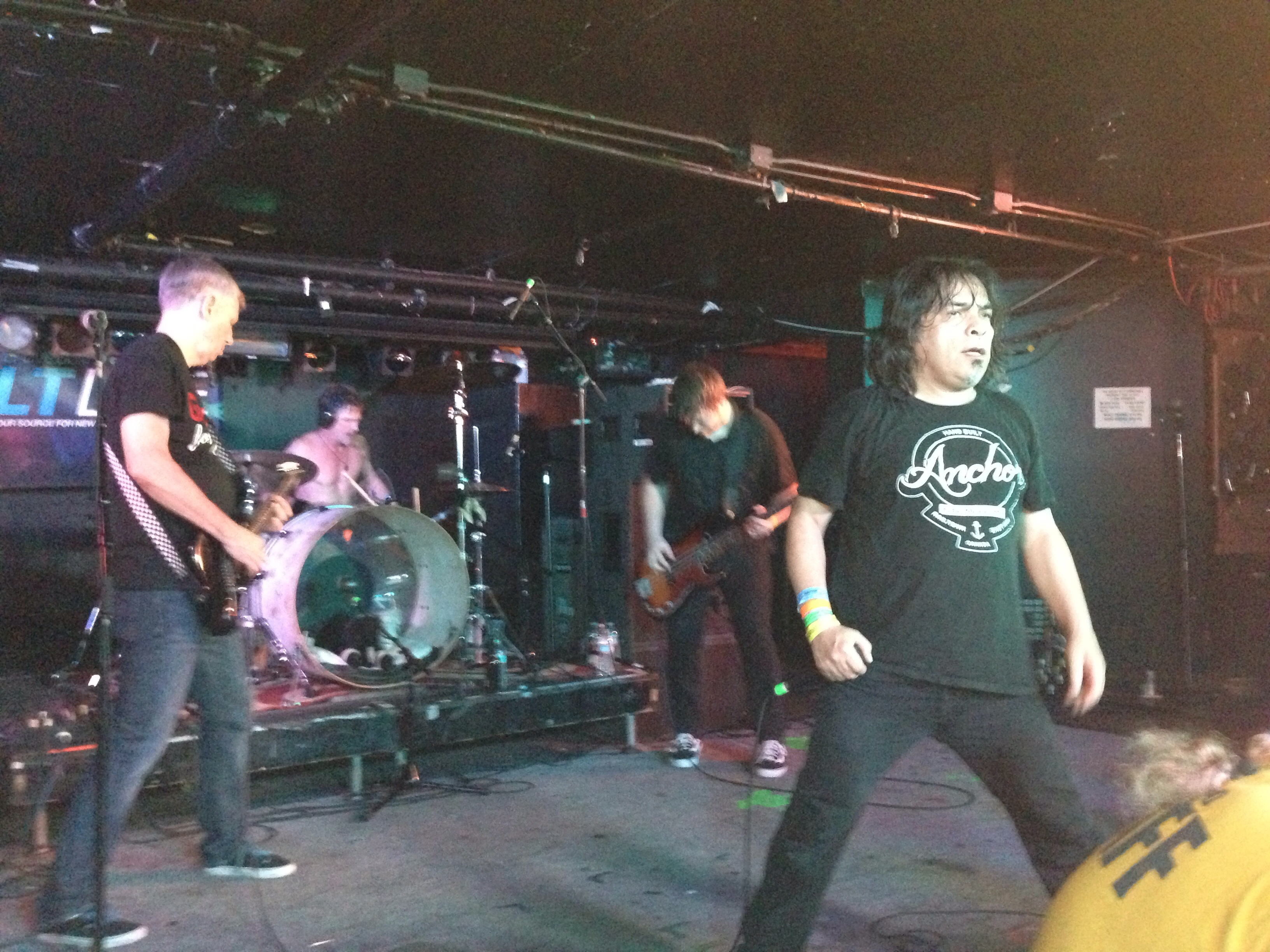 Black Flag (Greg Ginn, Gregory Moore, Dave Klein, Ron Reyes) performing live in Cambridge (United States).